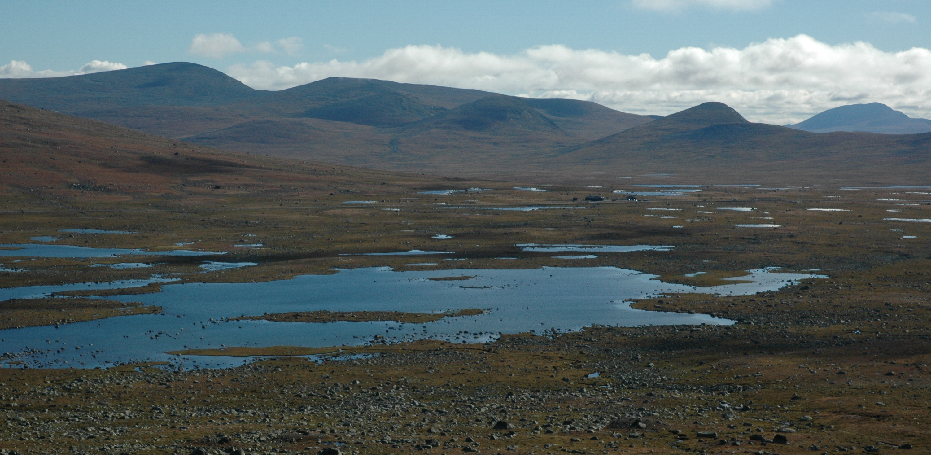 Valdresflya viewed from the north. The house in the picture is Valdresflya Youth Hostel